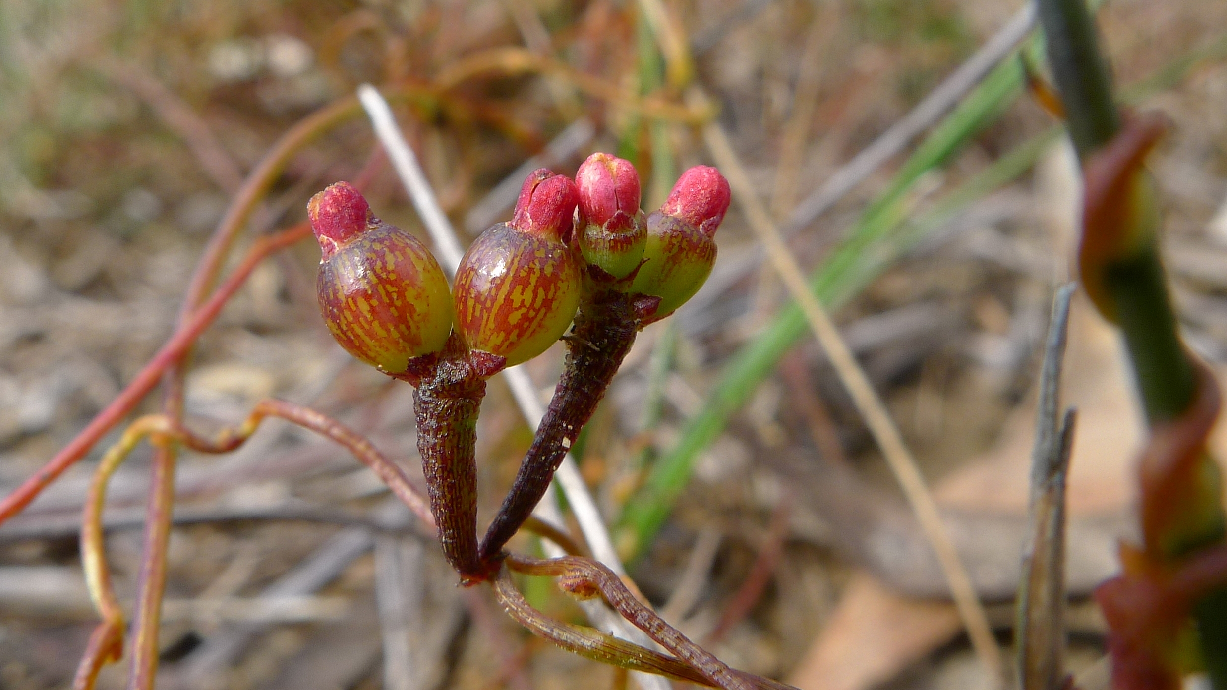 Devil's Twine, Cassytha glabella. Royal National Park, NSW Australia, August 2011.